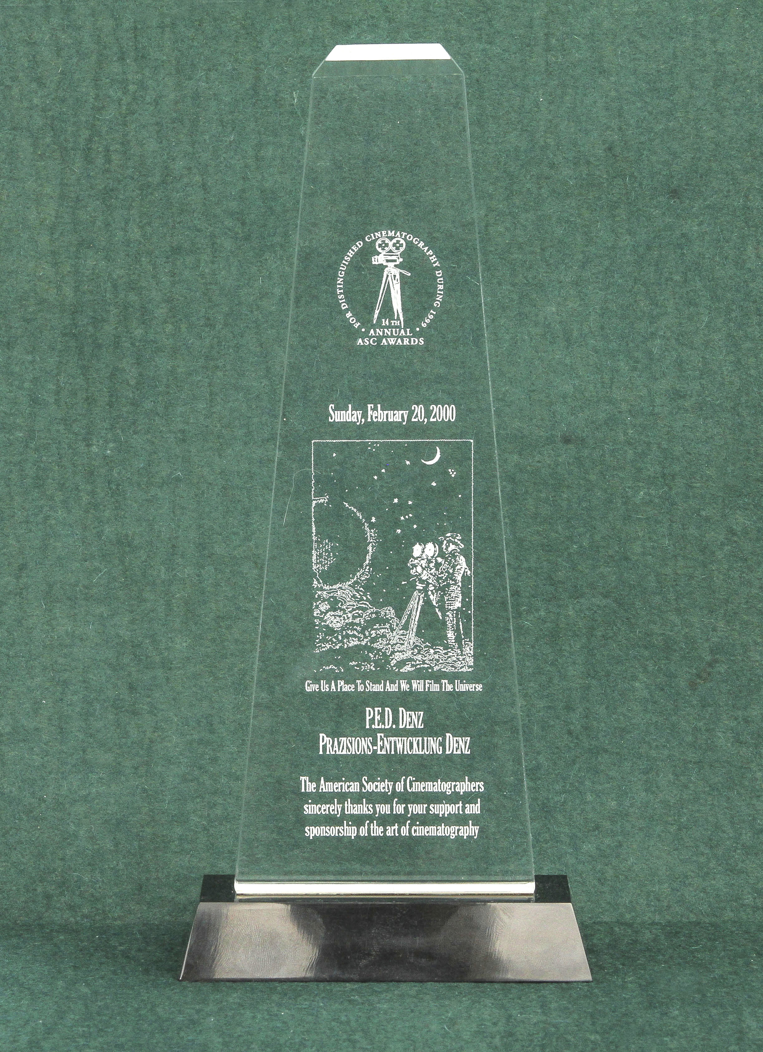 American Society of Cinematographers Award 2000 to the Präzisions-Entwicklung DENZ Fertigungs-GmbH